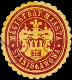 Sealing stamp Title: Magistrat Miasta Stanislawowa Description: rotbraun, gelb, geprägt Place: Stanislawowa size: 4x4 cm